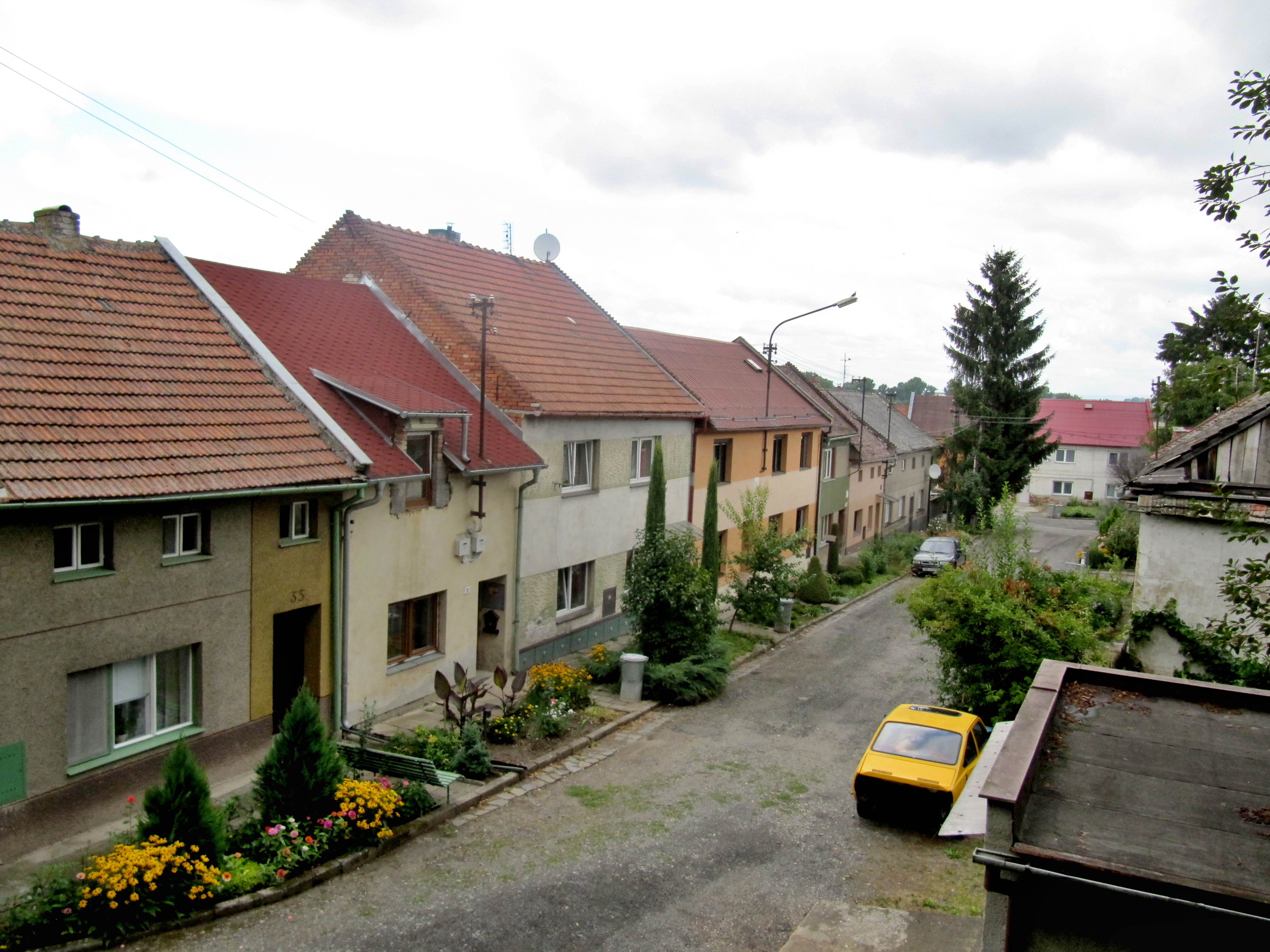 Stříbrnice, Přerov District, Czech Republic.